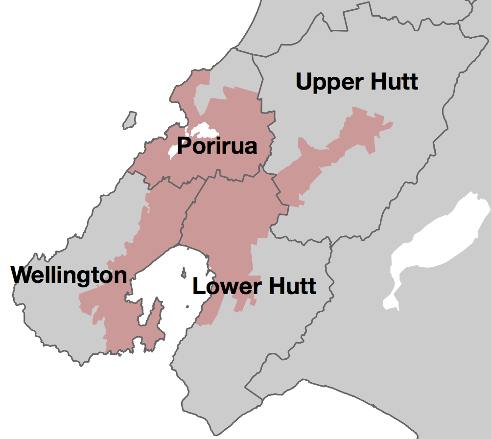 Wellington (New Zealand) urban area map.